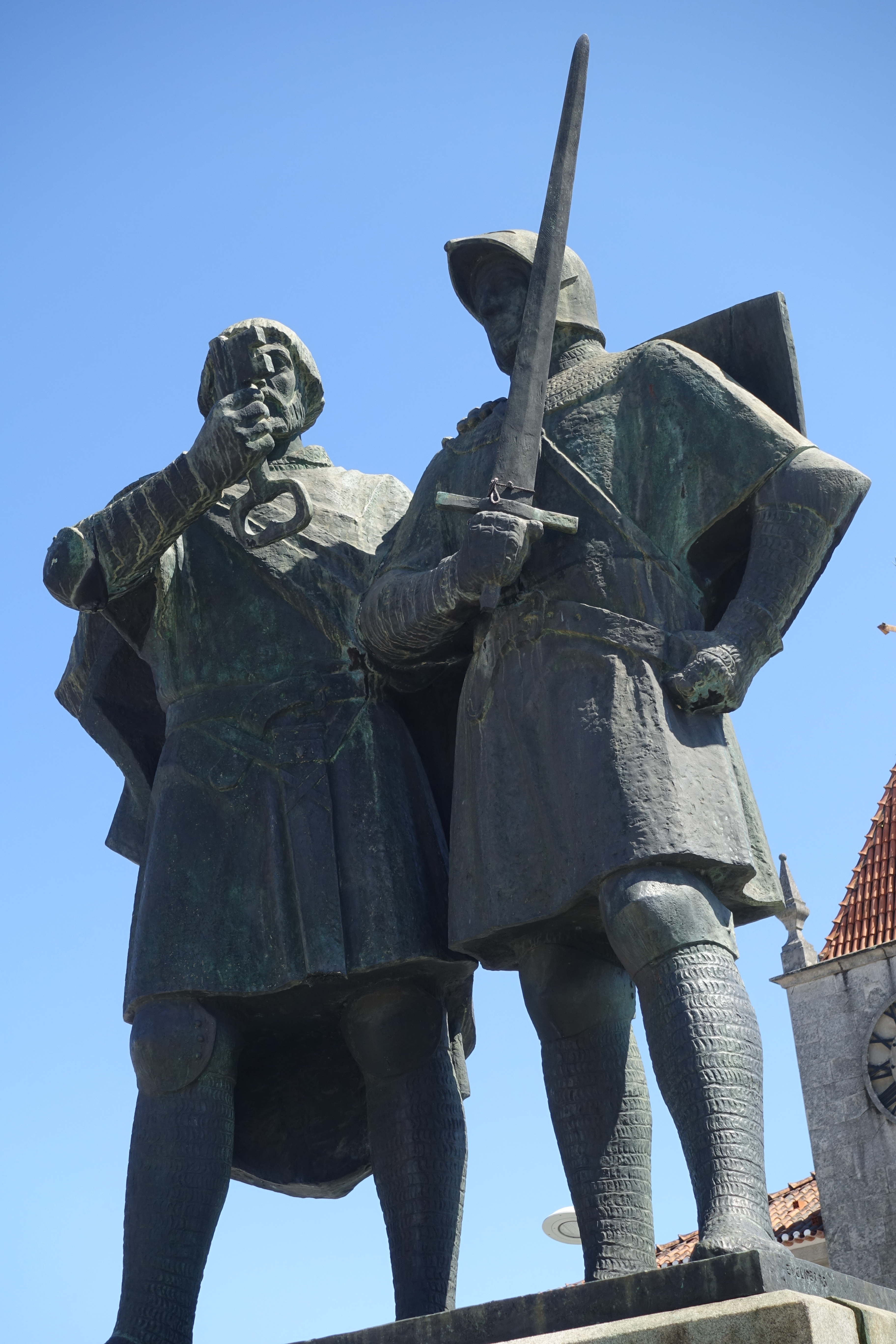 Barcelos Portugal in 2019